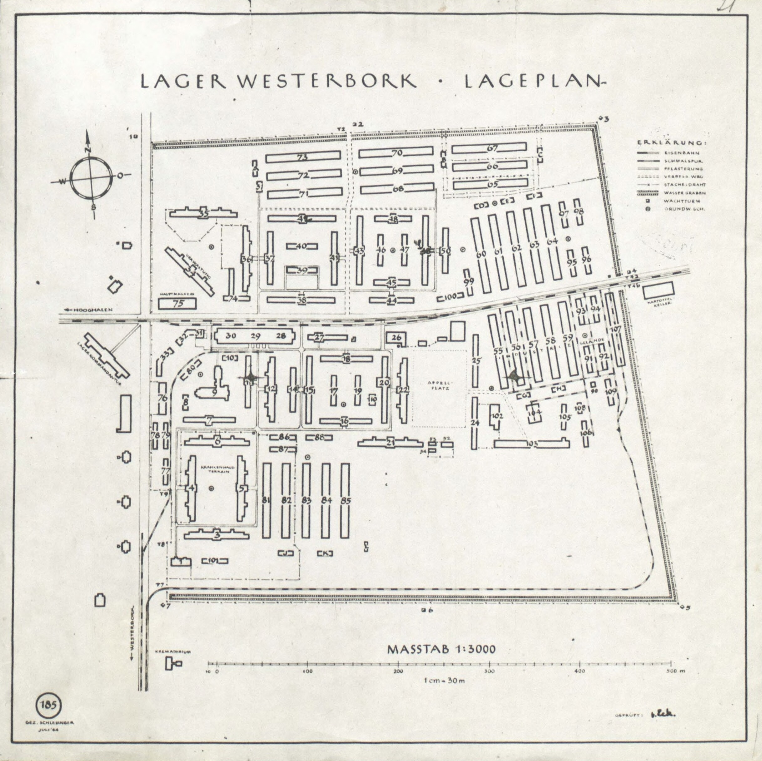 Map of concentration camp Westerbork (The Netherlands). Signed left corner: Gez. Schlesinger. Juli '44 (1944)